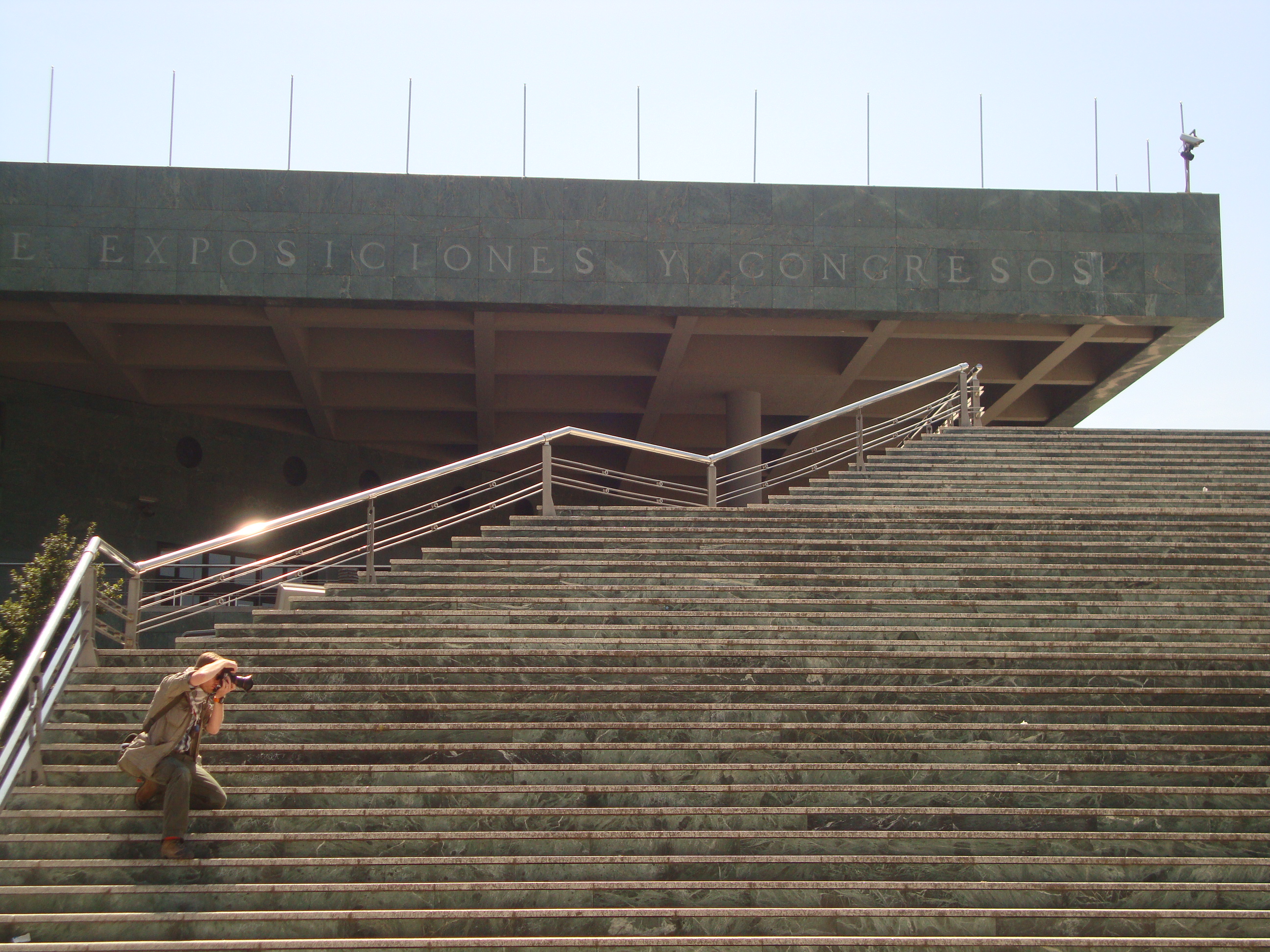 Cogress Palace from Granada, Spain